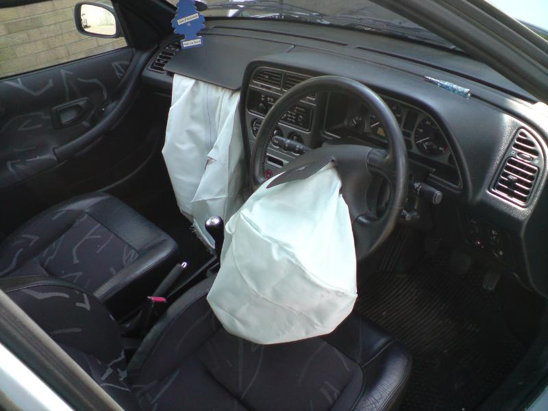 Interior photo of a Peugeot 306 with airbags deployed.